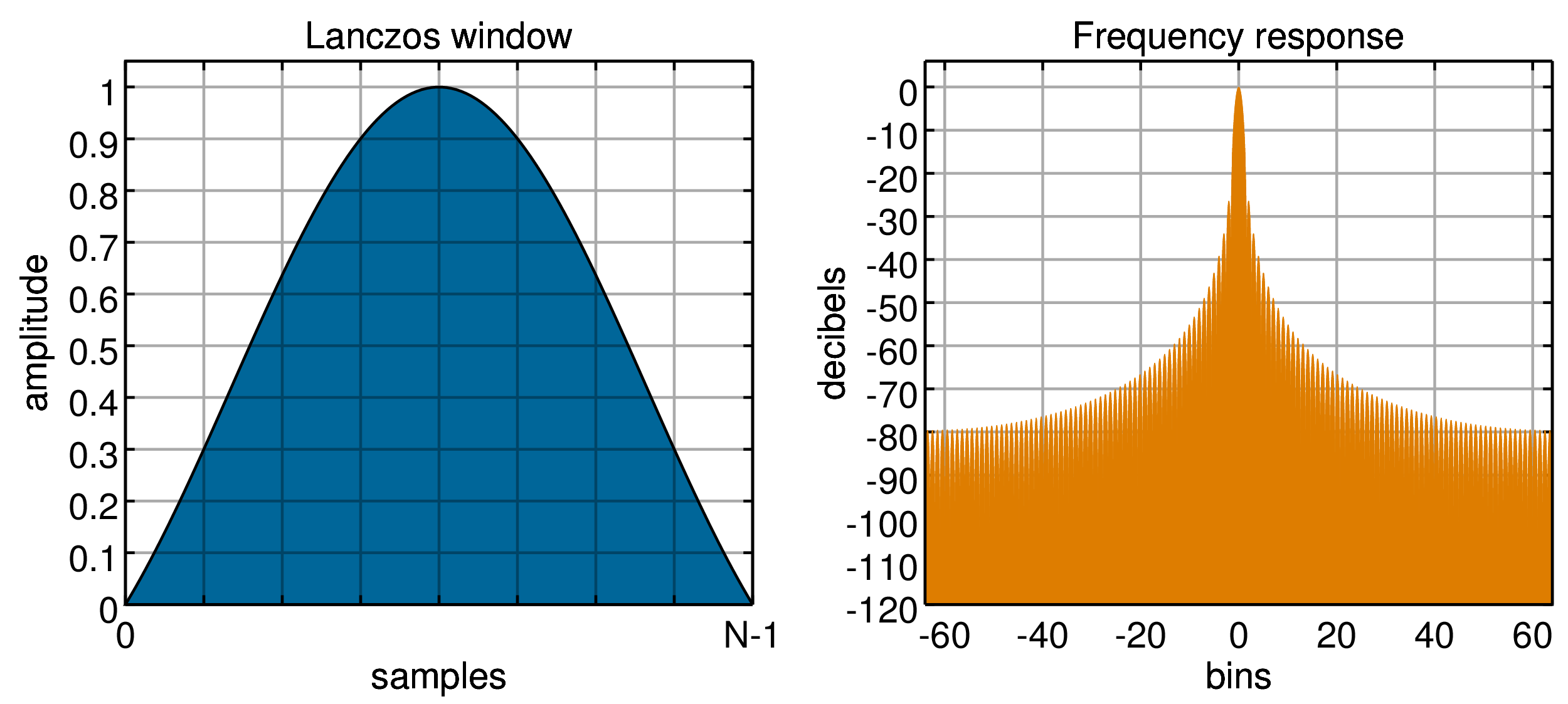 sinc/Lanczos window and frequency response